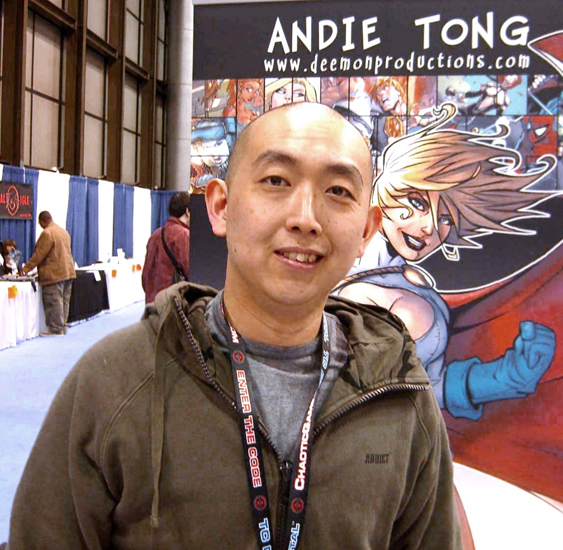 Comic book creator Andie Tong at the New York Comic Convention in Manhattan, April 20, 2008.Photo by Luigi Novi. This photo may be used, modified and published for any purpose, only if a easily visible credit to the photographer is placed near the photo in each instance in which it is used. (See licensing information below.) Publication of this photo without this proper attribution constitutes copyright infringement. For more information on my photos, you can contact me here.